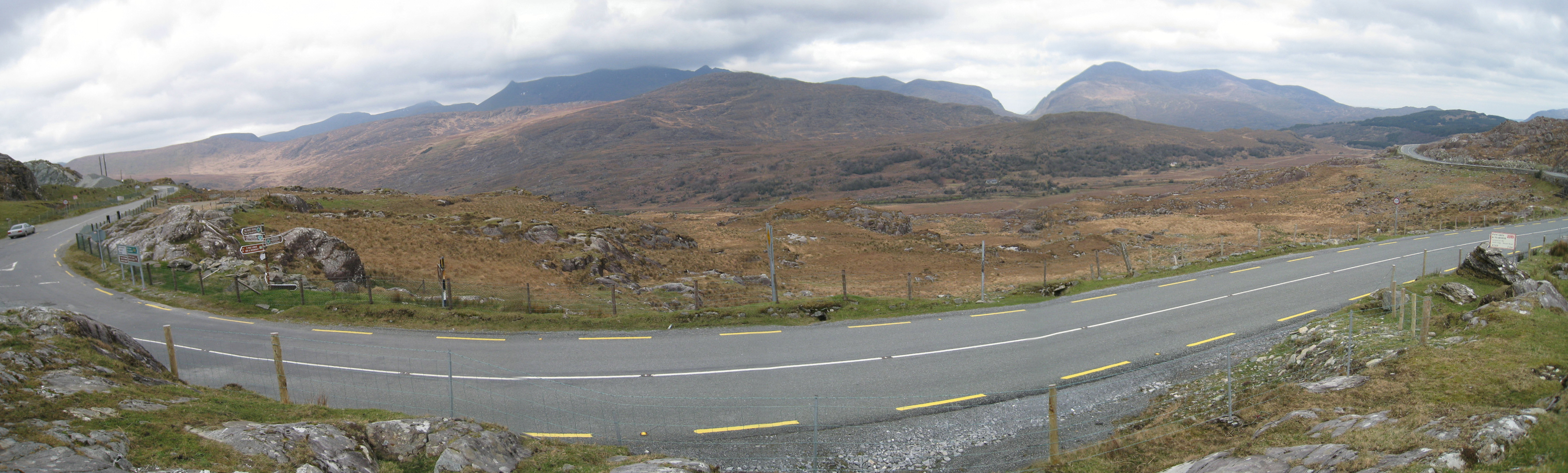 Molls Gap in County Kerry, Ireland